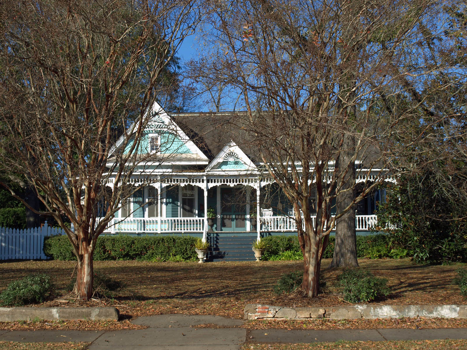 Gaston-Perdue House in Greenville, Alabama, listed on the National Register of Historic Places